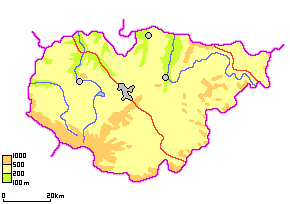 Blank map of Salaj County (Romania)